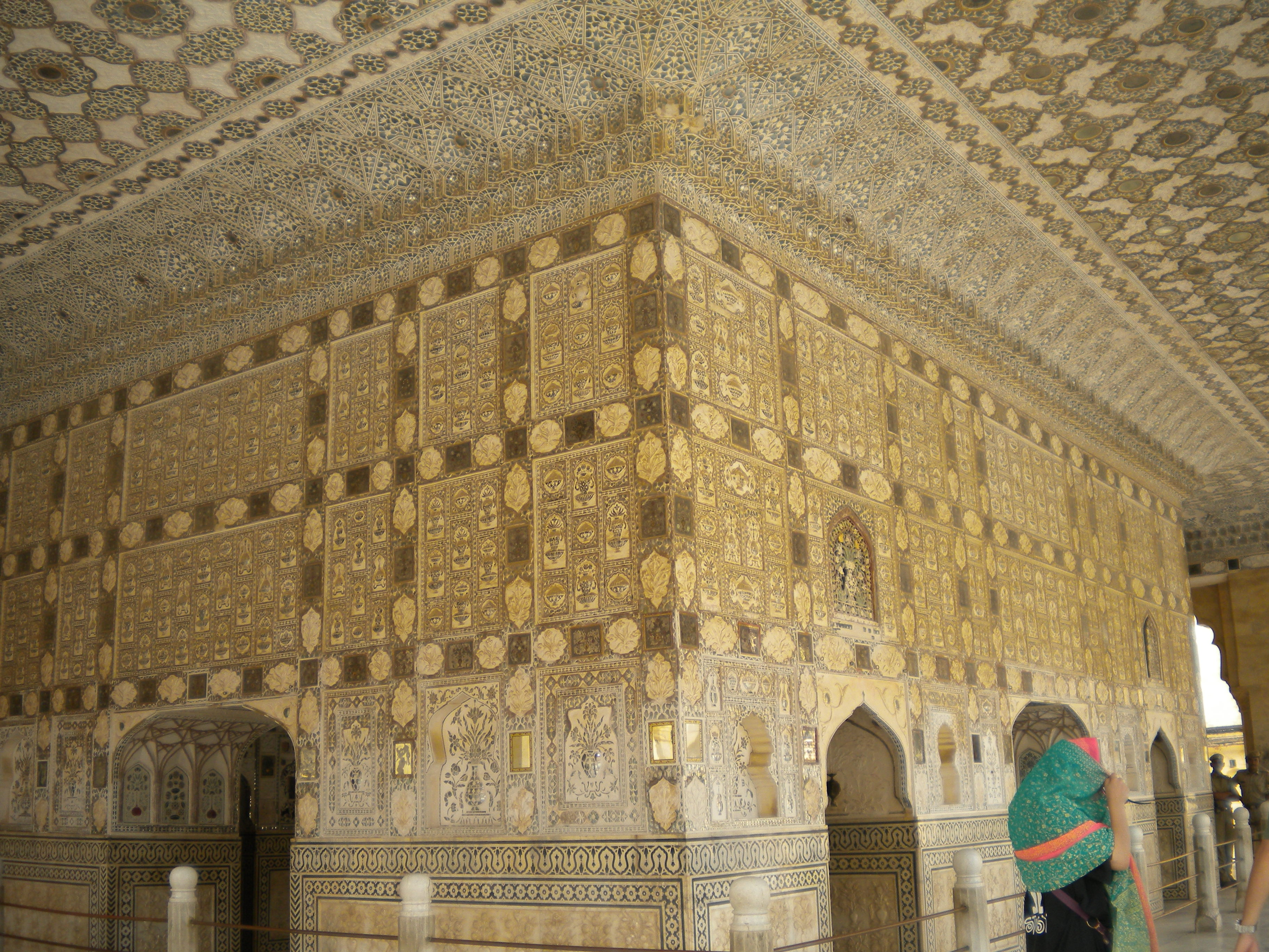 Interior of Sheesh Mahal. Diwan-i Khas of Amber Fort is also known as Sheesh Mahal (Glass palace).